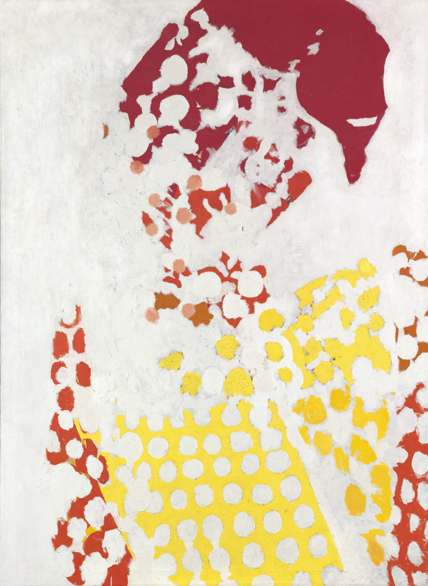 Onion, oil on canvas, 150 x 110 cm (late 1960s)